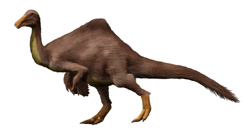 Reconstruction of Deinocheirus mirificus.